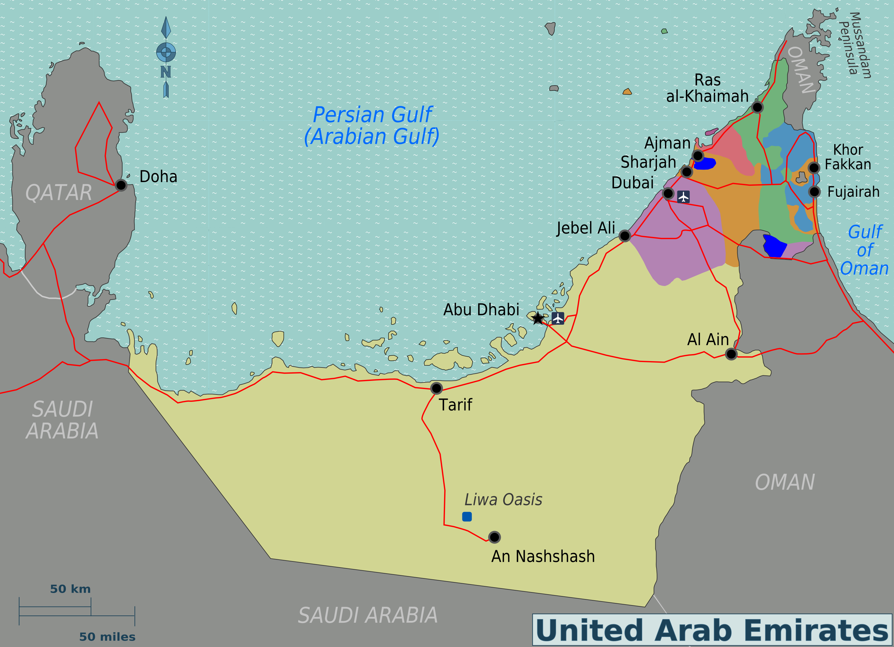 uae regions